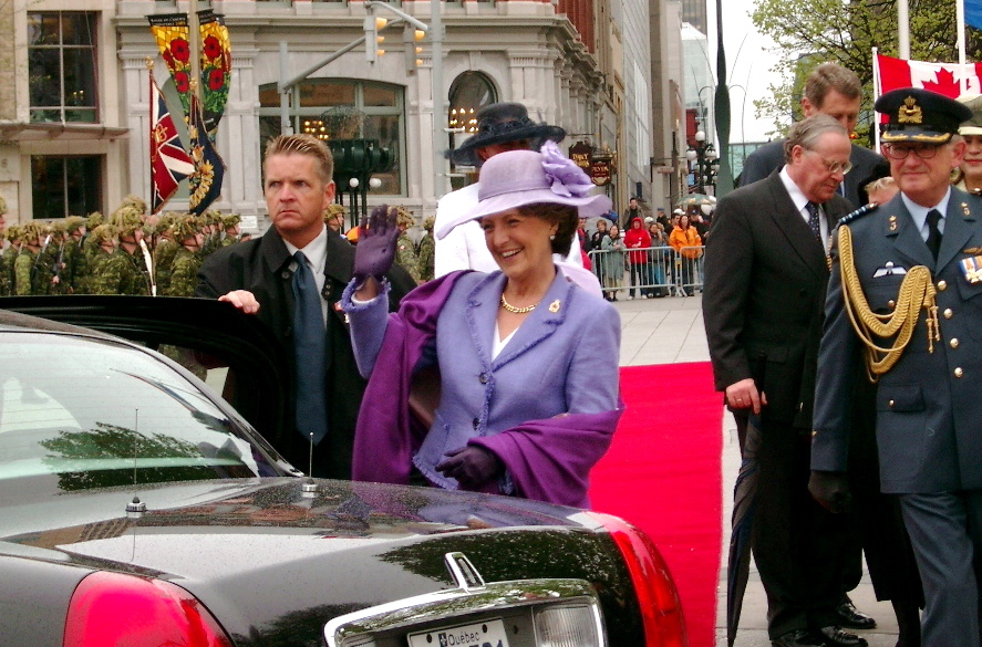 Her Royal Highness Princess Margriet of the Netherlands, Orange-Nassau and Lippe-Besterfield in Ottawa during the Ottawa Tulipfest in May 2002.